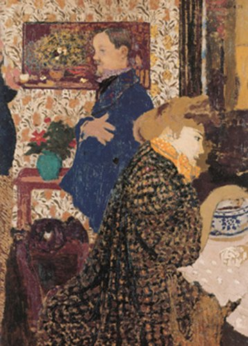 Portrait of Misia Sert